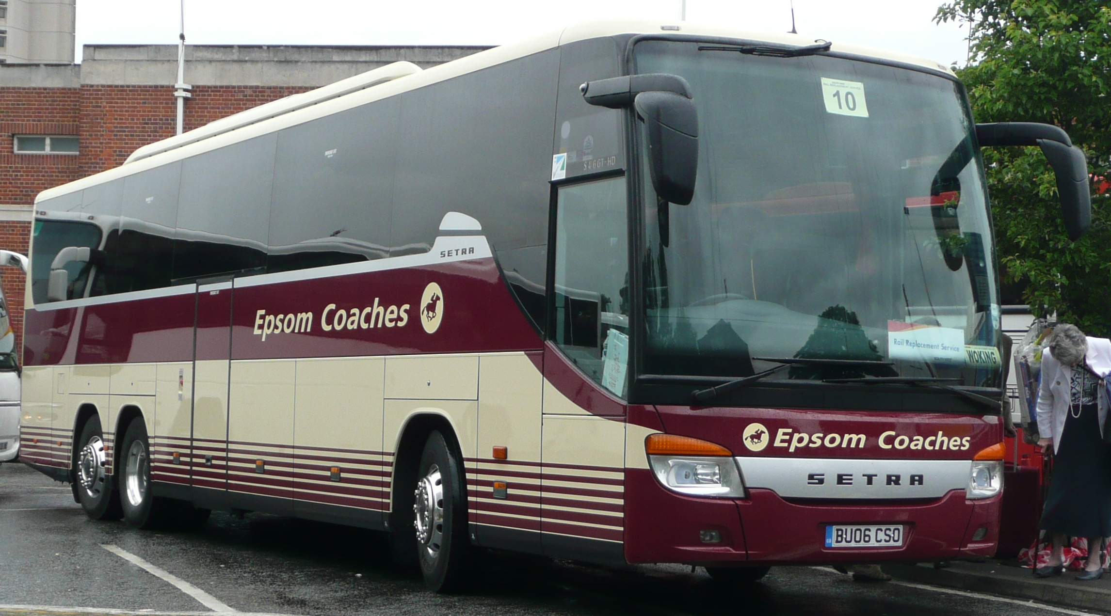 An Epsom Coaches Setra vehicle on rail replacement work at Woking.